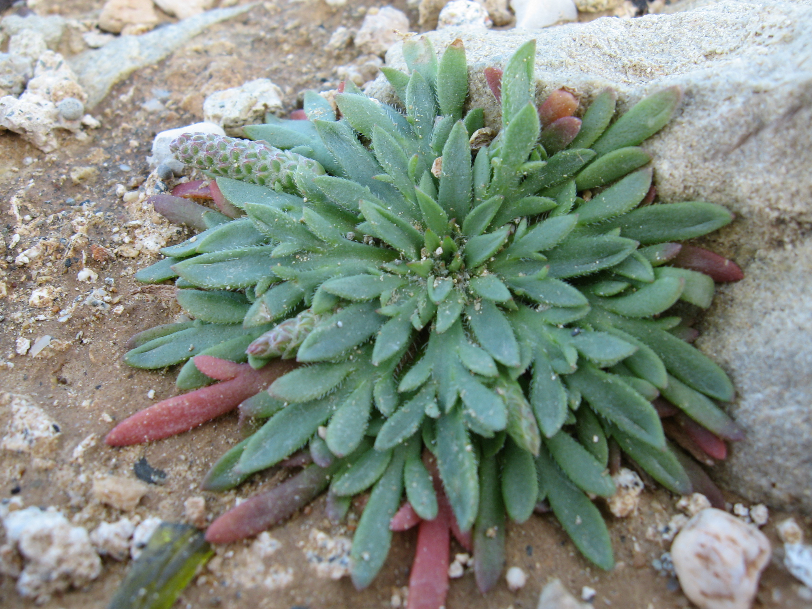 Plantago weldenii; A coastal species of Plantain (family Plantaginaceae). Photo taken on 22/2/07 at a rocky coast in Heraklion of Crete, Greece.